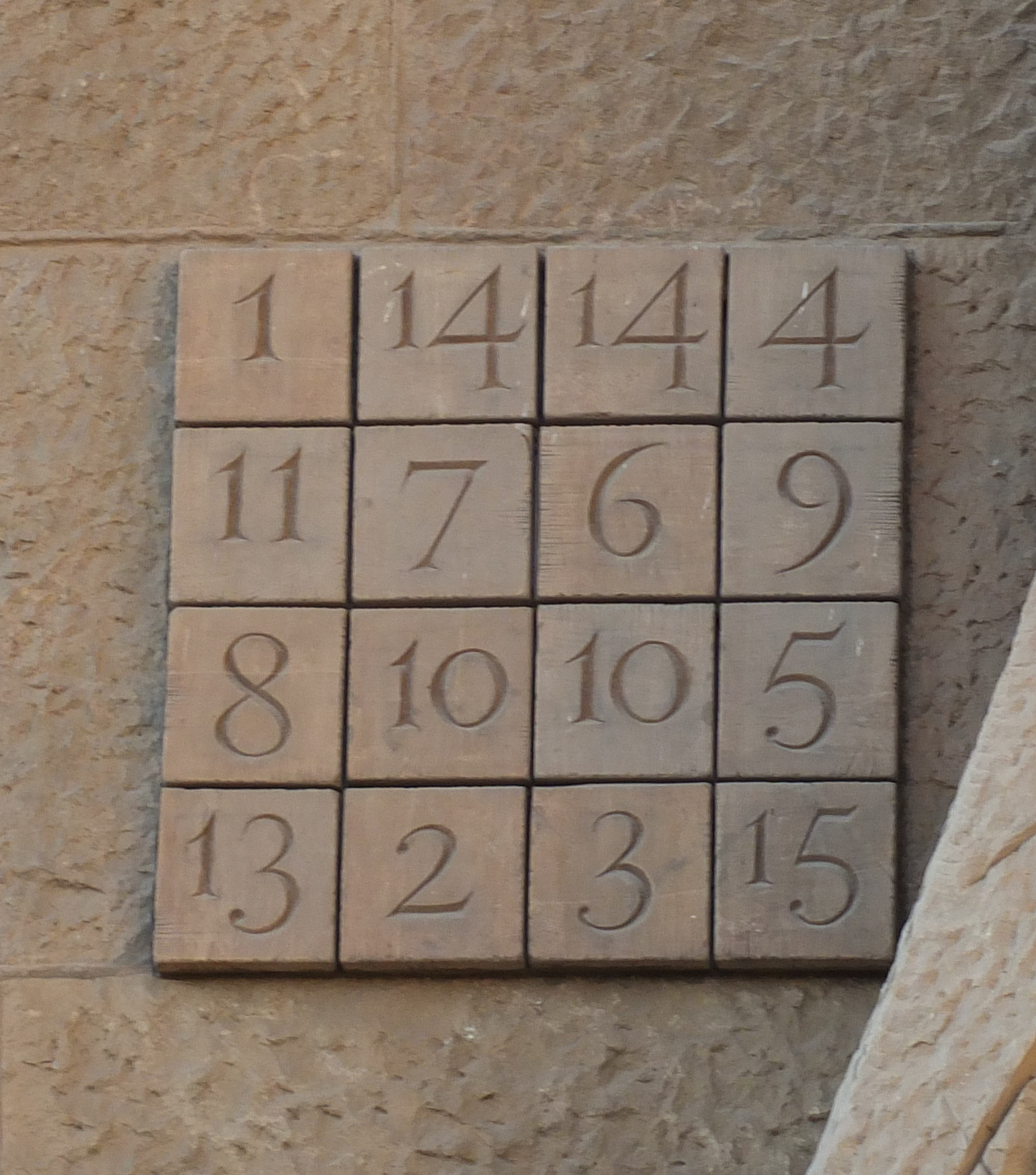 Magic square in the facade of the passion of the Sagrada Familia in Barcelona. Rows, columns and diagonals add up to 33, the age at which Christ supposedly died on the cross.